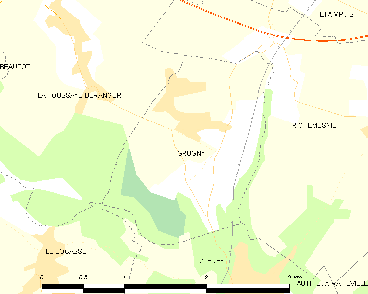 Map of French municipality Grugny